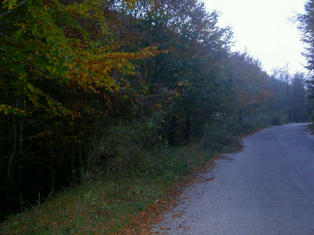 Woods of Pruno — in the middle of the Pruno territory. In Cilento and Vallo di Diano National Park — in Campania.